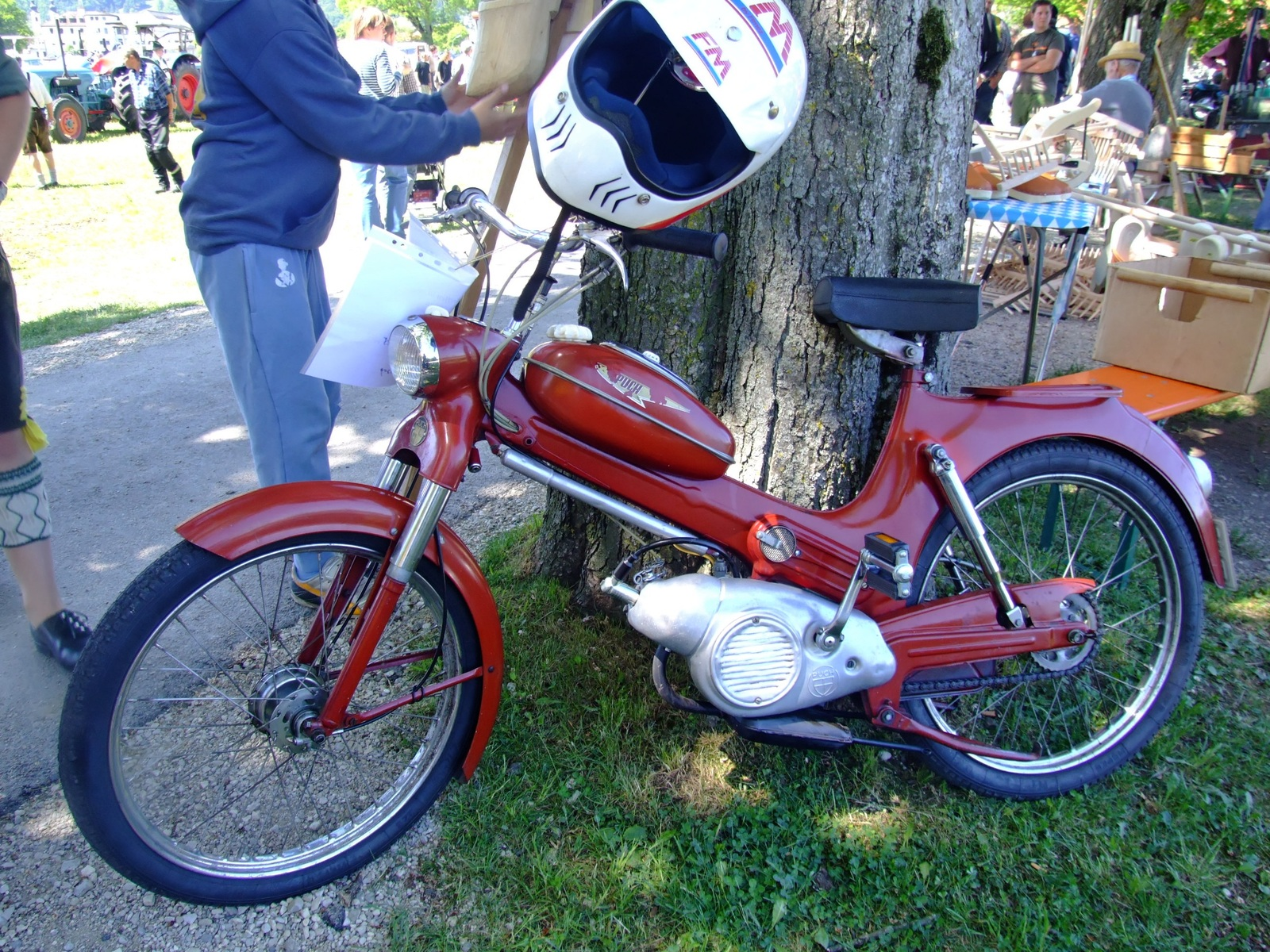 Quelle: taken on my own, 05/2007 Photographer: Späth Chr.